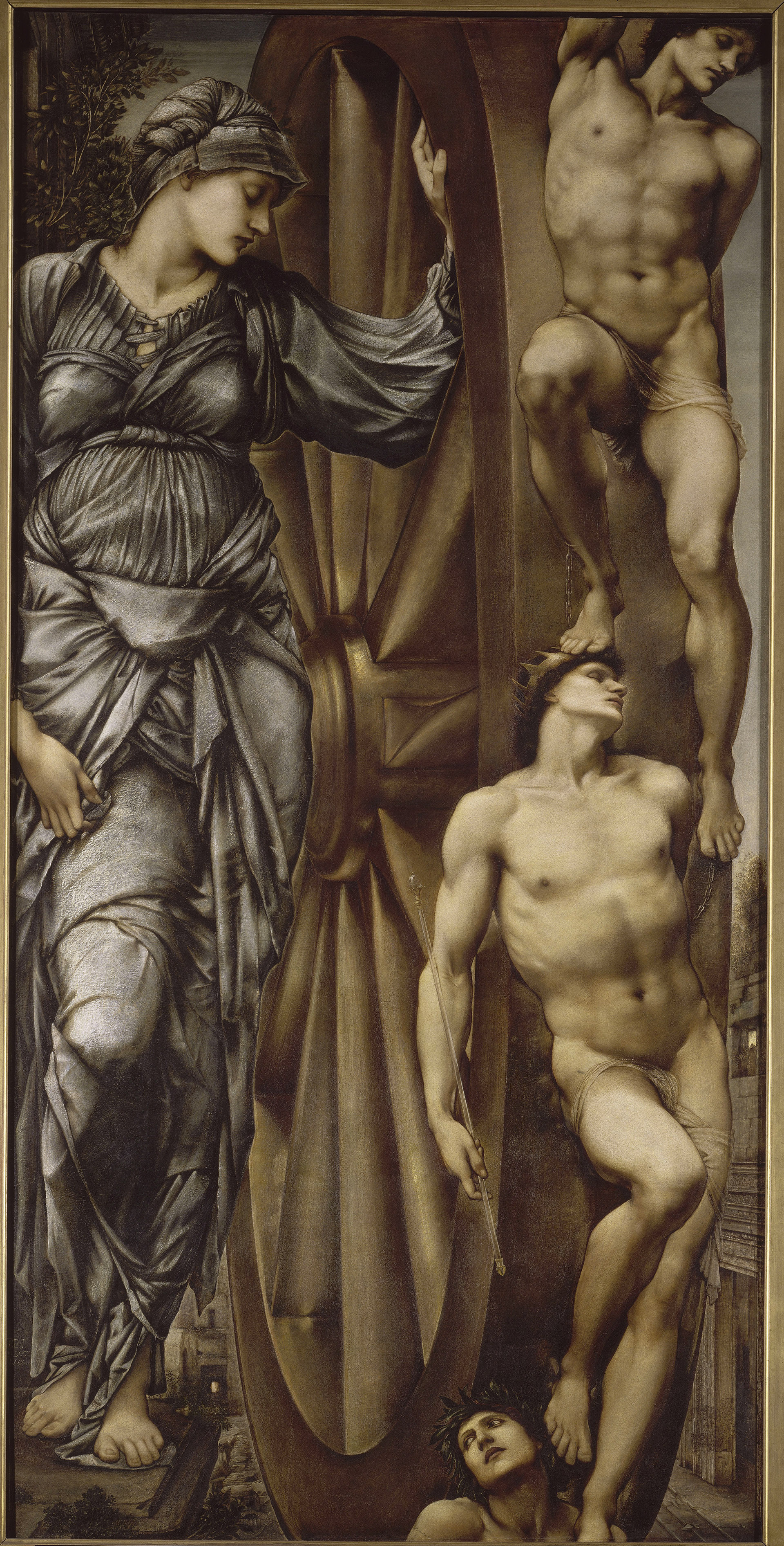 The Wheel of Fortune. Musée d'Orsay.